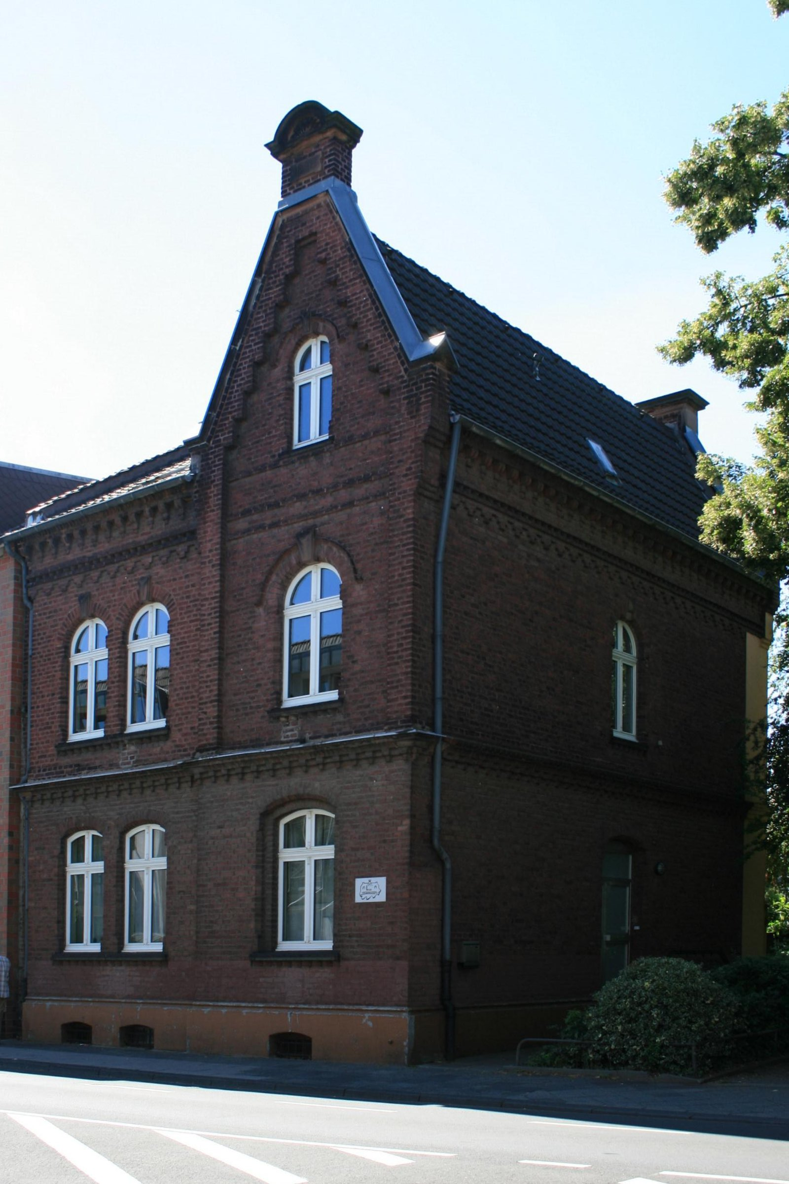 Cultural heritage monument No. E 026 in Mönchengladbach